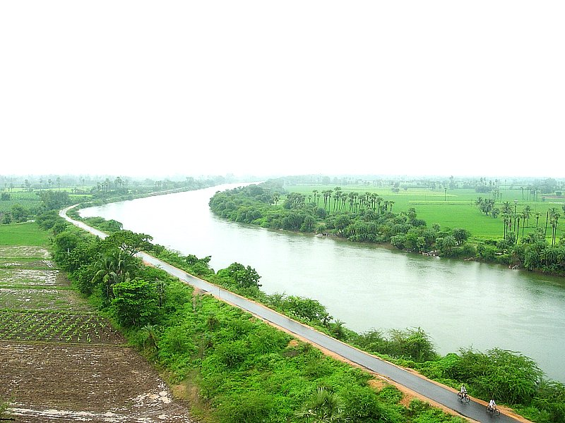 this the picture take my village.